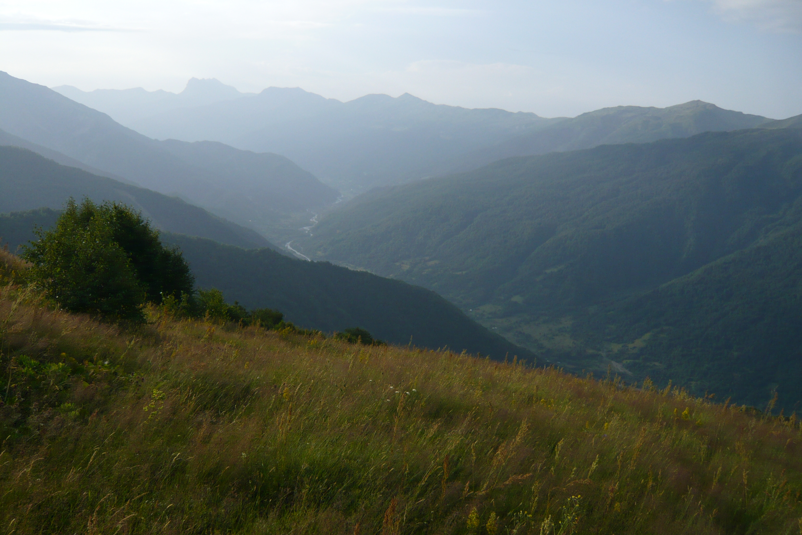 Tskhenistsqali valley near Mami, Lower Svaneti, Georgia